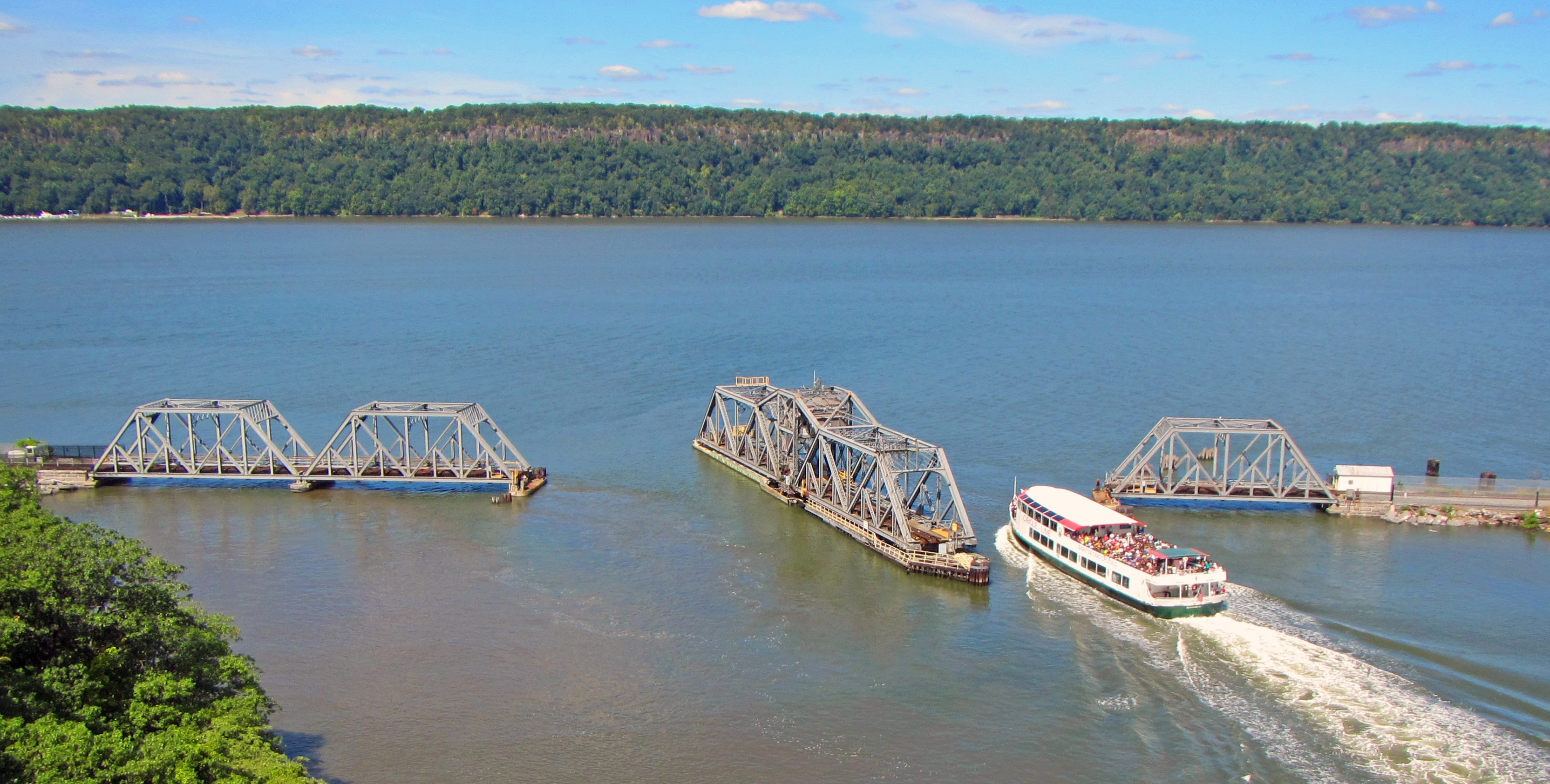 Circle Line crossing the Spuyten Duyvil Bridge from the Spuyten Duyvil Creek into the Hudson River, seen from Henry Hudson Bridge